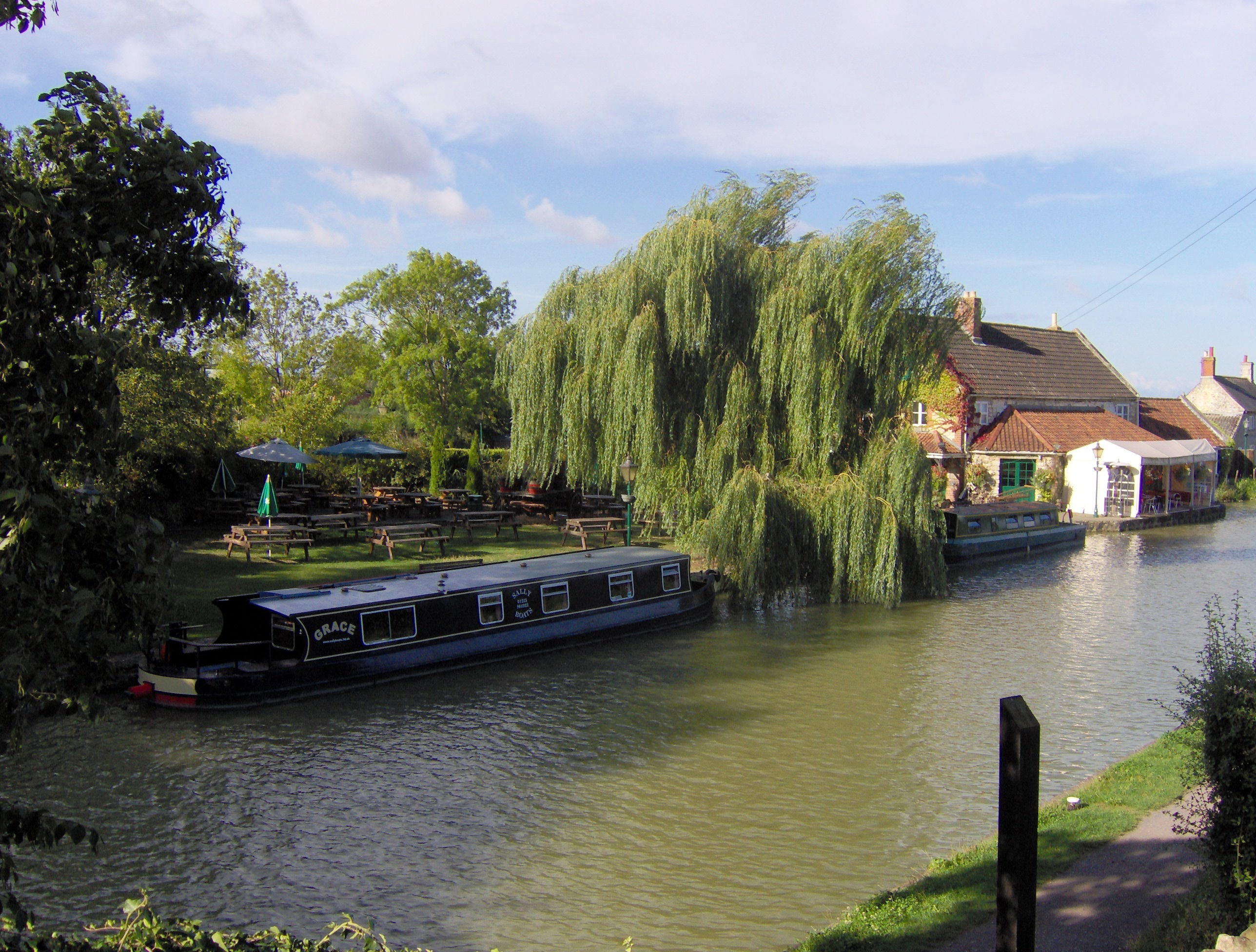 The Barge Inn at Seend Cleeve. Taken by Rod Ward August 2006